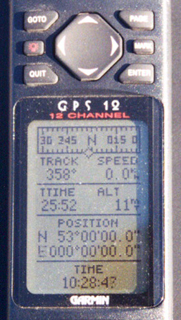 Confluence point 53N 0. Photo taken by myself, Stephen Turner, on 2003-08-31. Licensed under the GFDL.